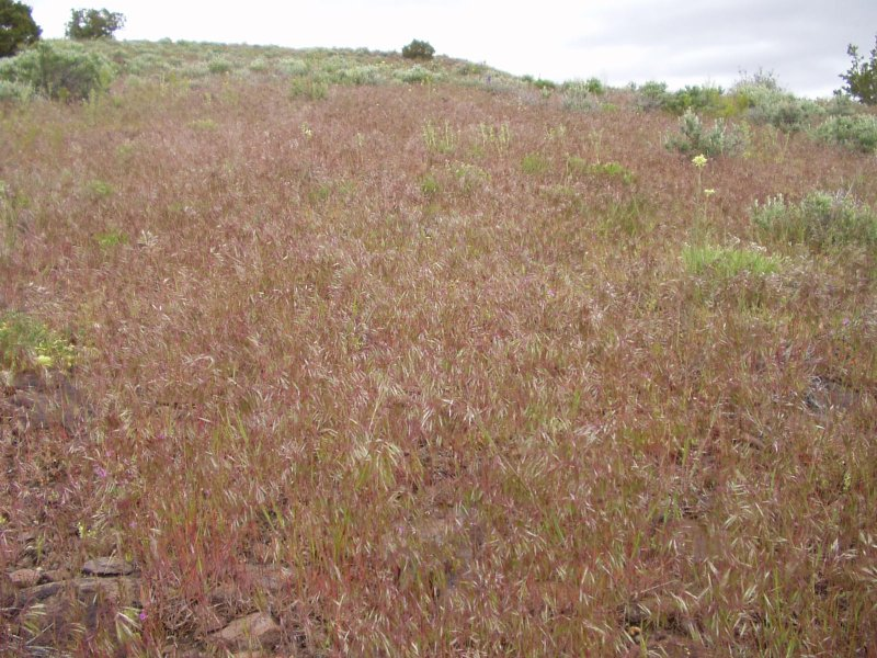 Downy Brome infested rangeland in Northern Nevada.